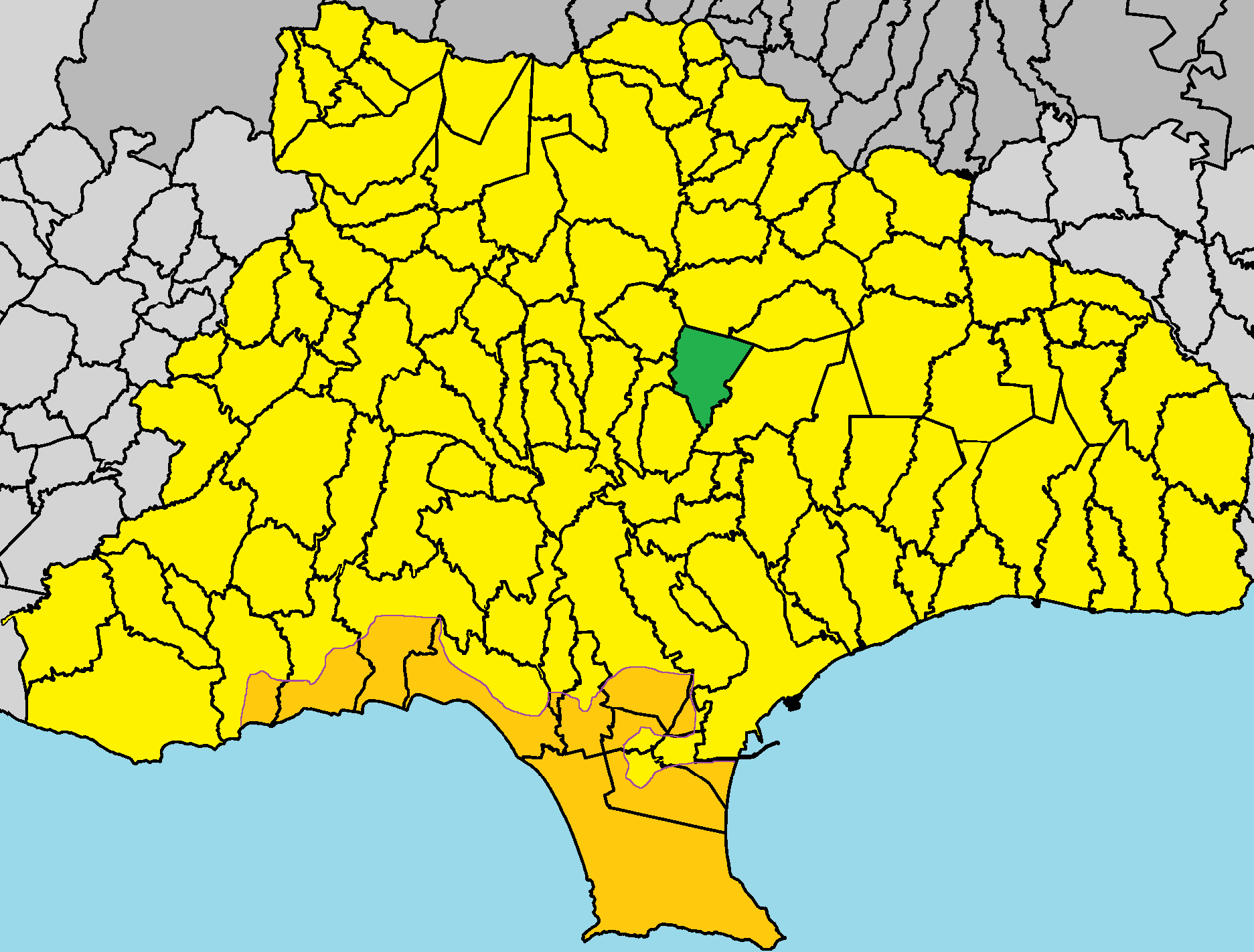 Gerasa, Cyprus in Limassol District.